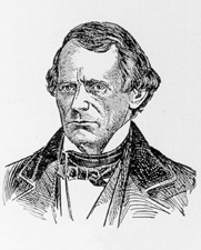 From the U.S. Senate historical office